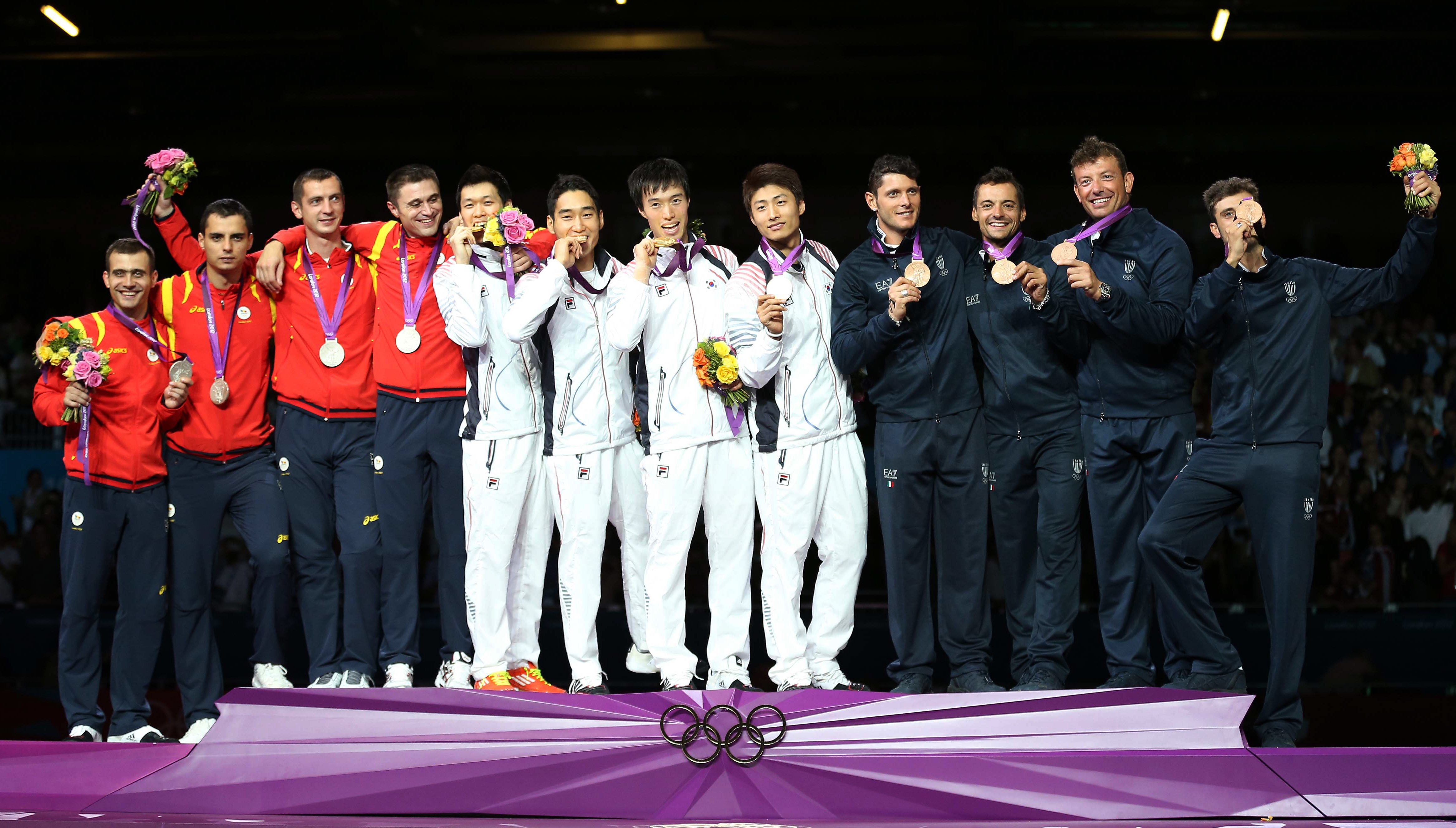 2012 London Olympic Games Korea won the gold medal men's team Saber fenching. Gu Bongil, Kim Junghwan, Won Woo-young and Oh Eunseok 2012. 08. 05. hoto by Korean Olympic Committee Ministry of Culture, Sports and Tourism Korean Culture and Information Service 2012 런던 올림픽 한국 남자 사브르 단체전 금메달 획득 구본길, 김정환, 원우영, 오은석 사진제공 - 대한체육회 문화체육관광부 해외문화홍보원